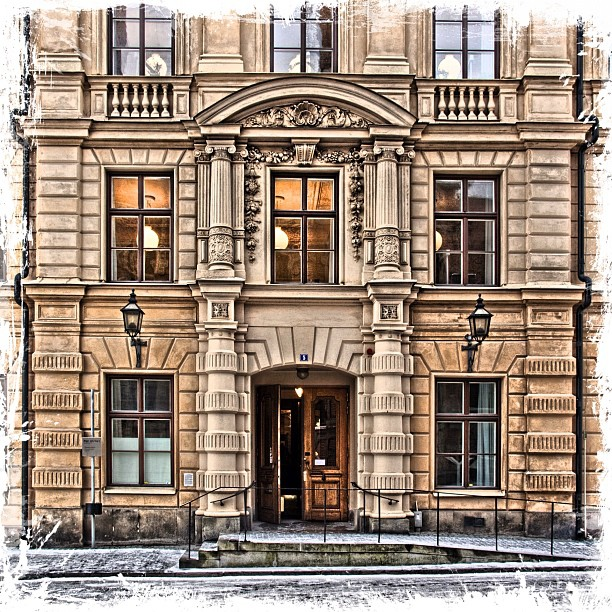 The Old Parliamentary House, Stockholm, porch and facade from 1865.